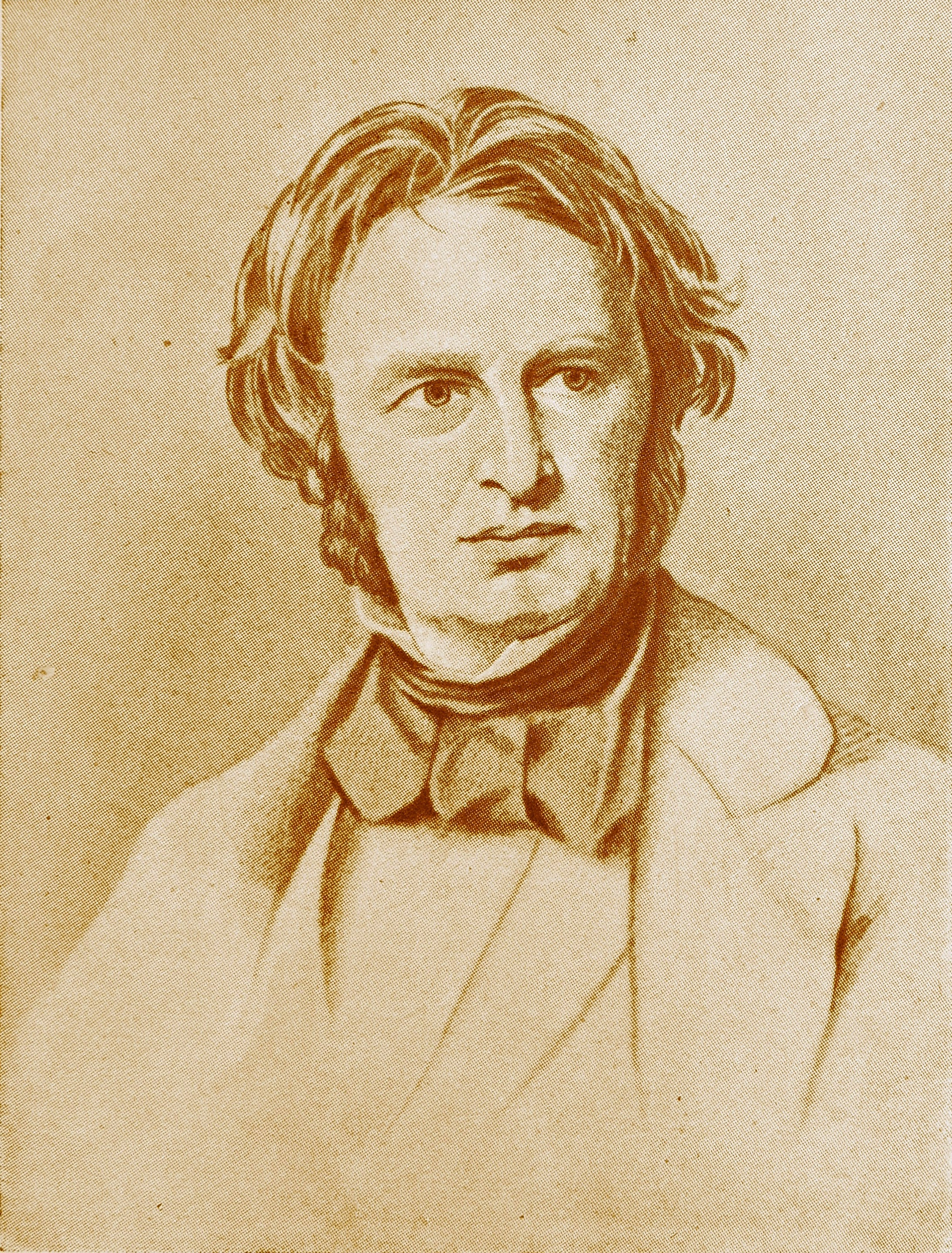 Engraving of American poet Henry Wadsworth Longfellow, presumably after an 1854 portrait by Samuel Lawrence. From the book The Song of Hiawatha, Moscow, 1931. Published by OGIZ. Sepia.